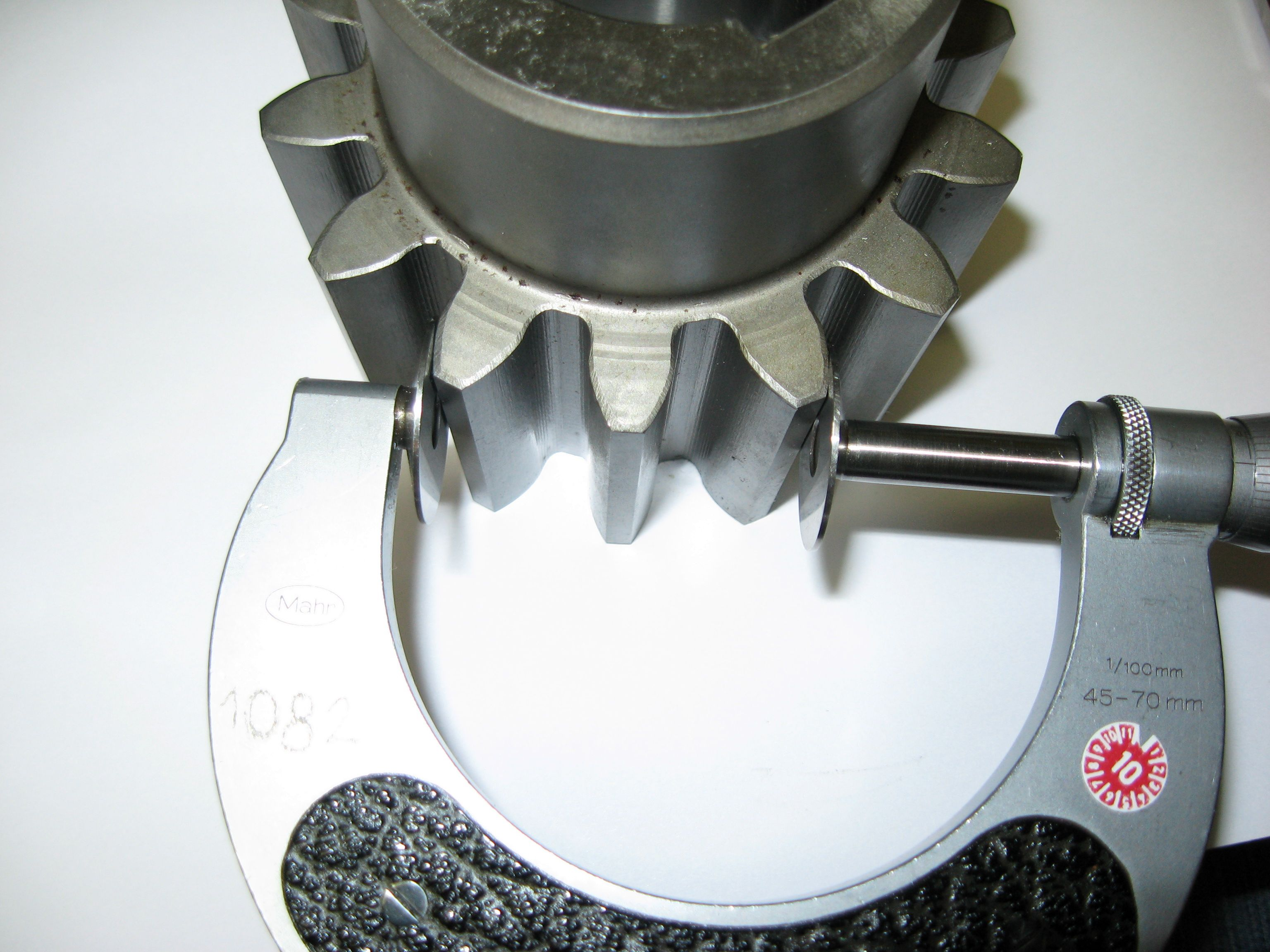 Measuring the Tooth Width on a Gear Wheel